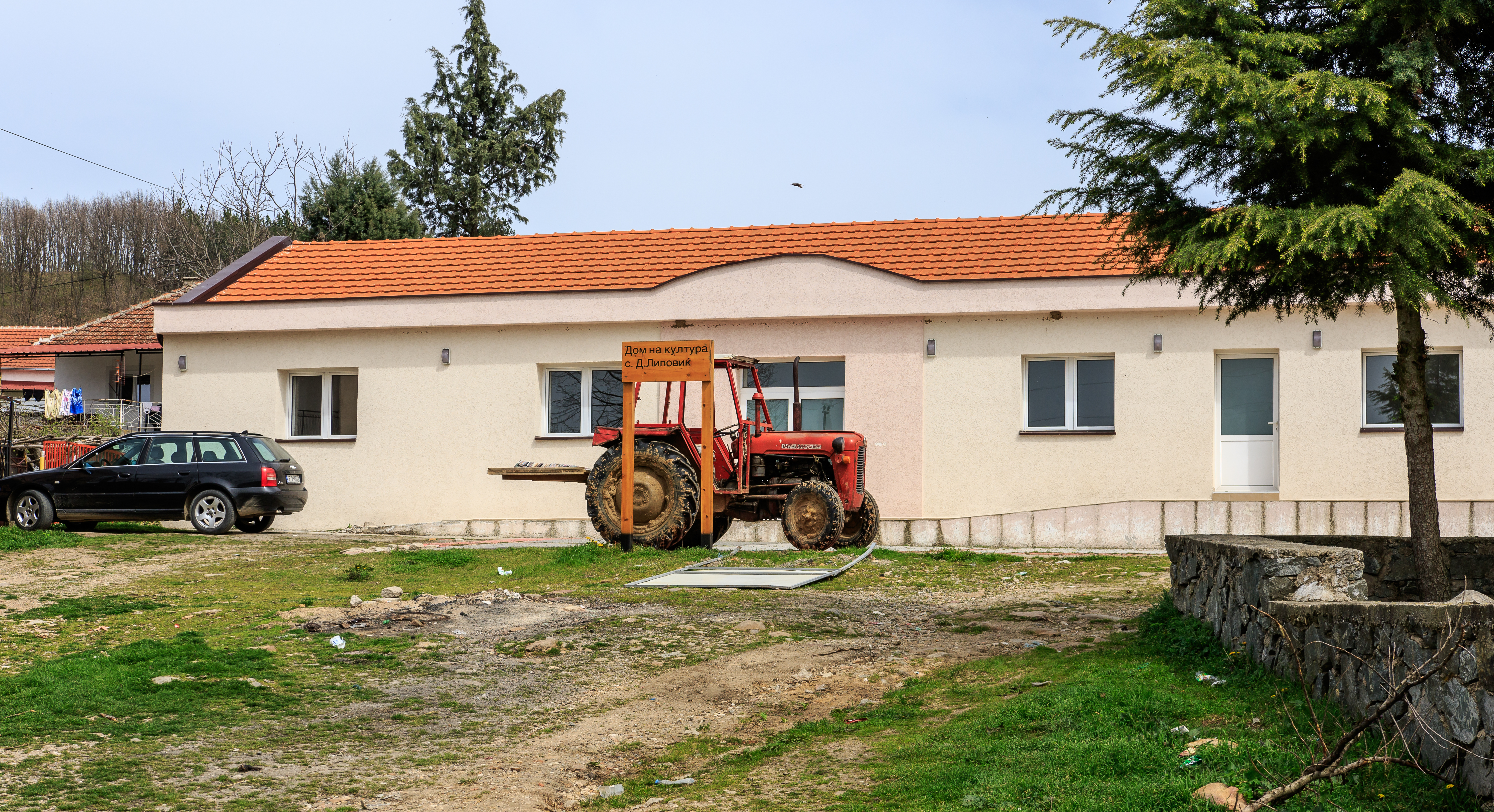 Cultural institution in the village Dolni Lipoviḱ